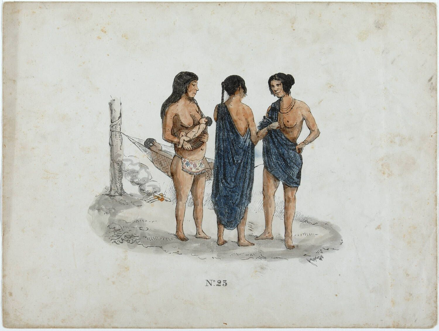 Arawak Indians